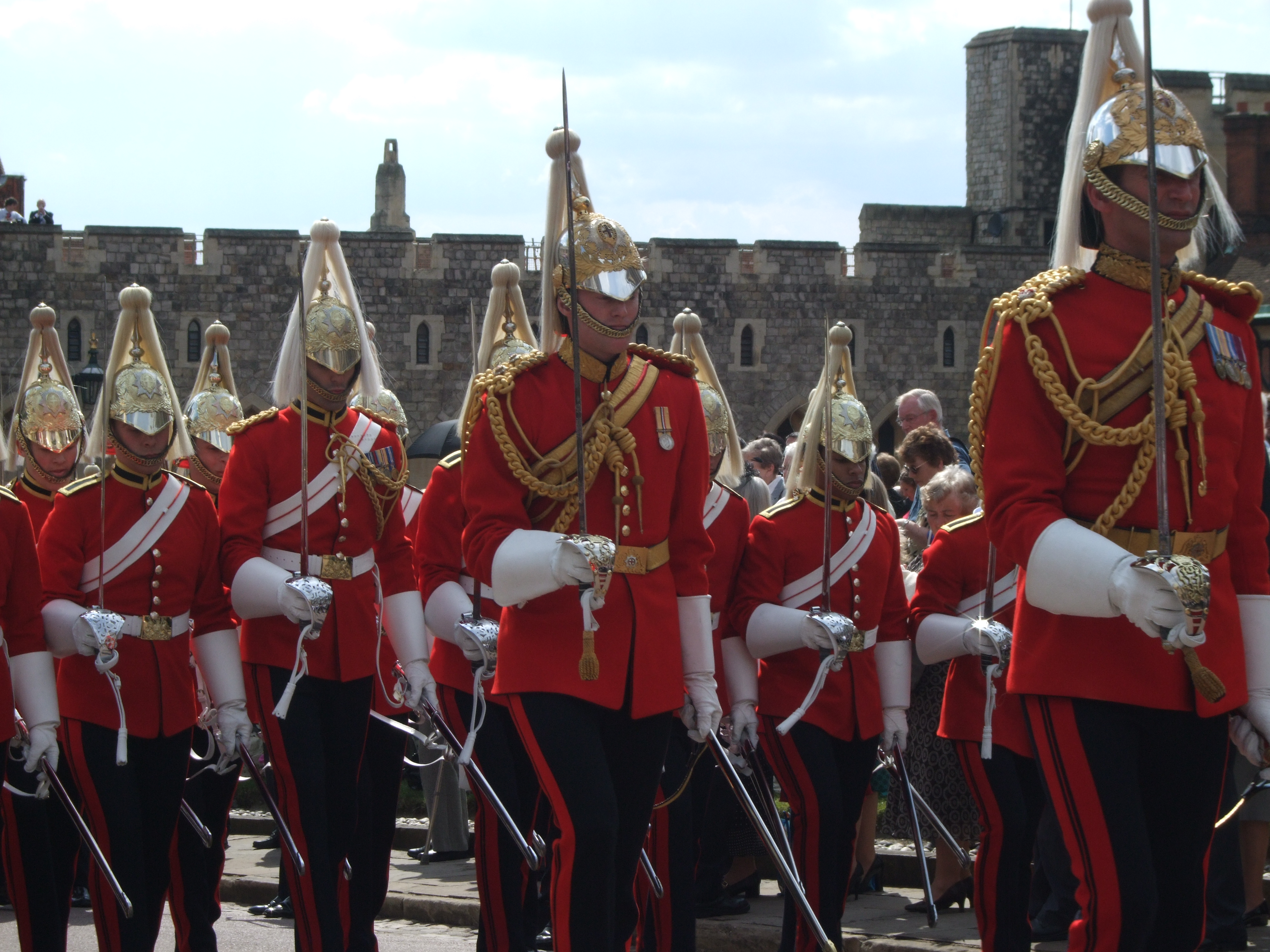 Life Guards